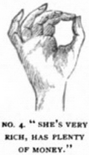 The image caption is the same as in the book, "Face To Face With The Mexicans". This book can be read by following an image link or by looking in the category Face to Face With the Mexicans (book)